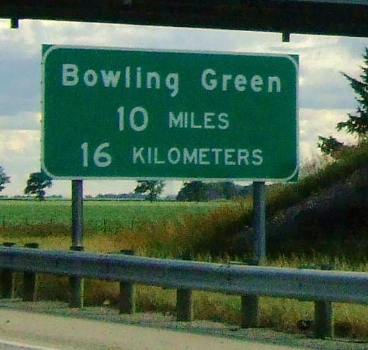 Sign indicating distance in mi & km on southbound Interstate 75 near Bowling Green, Ohio